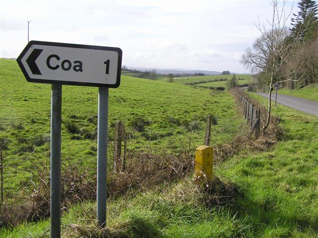 Drumsloe Short and to the point.